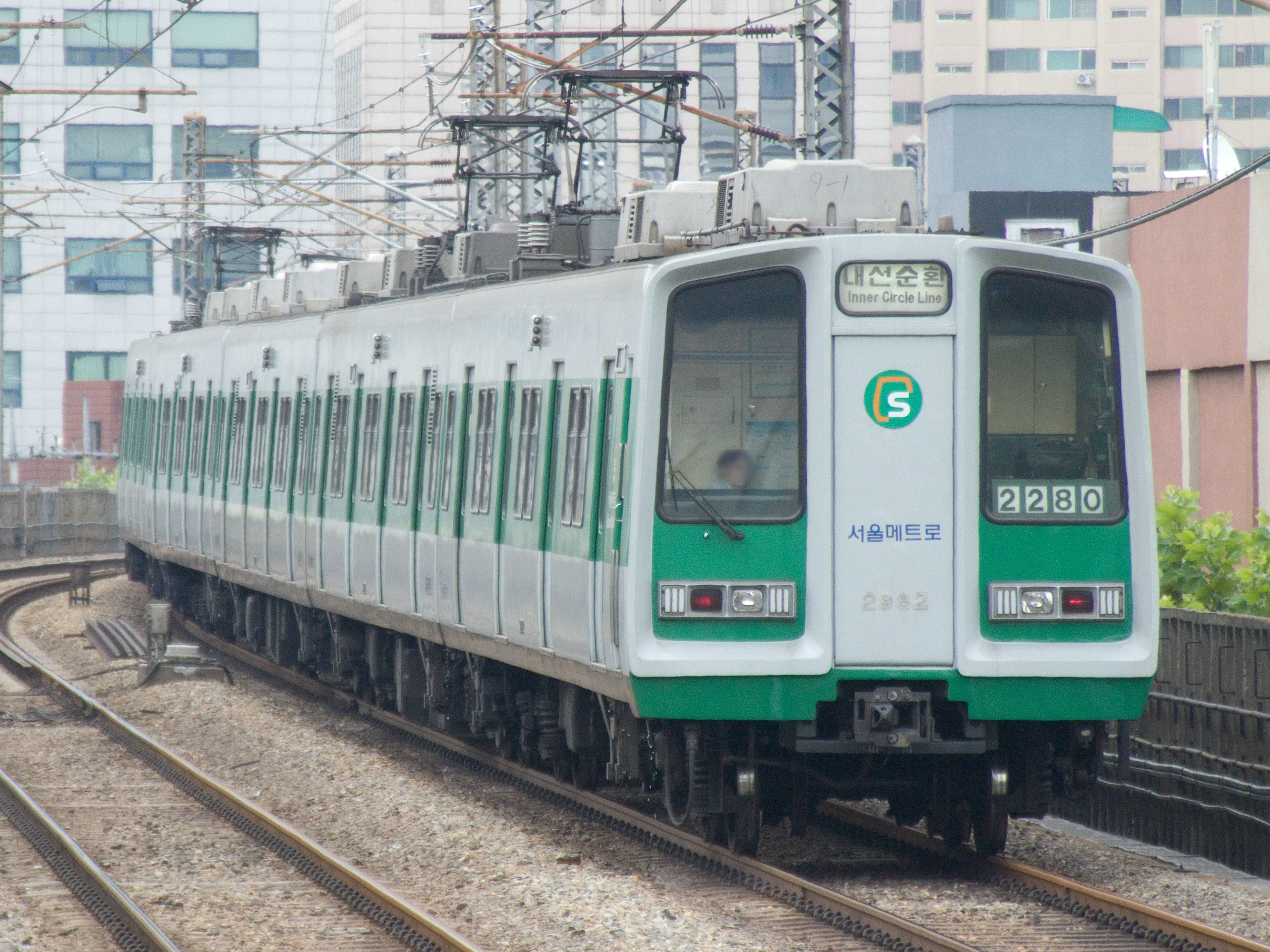 Seoul Metro series 2000